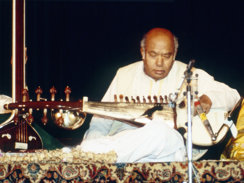 Indian classical musician and master of sarod Ali Akbar Khan